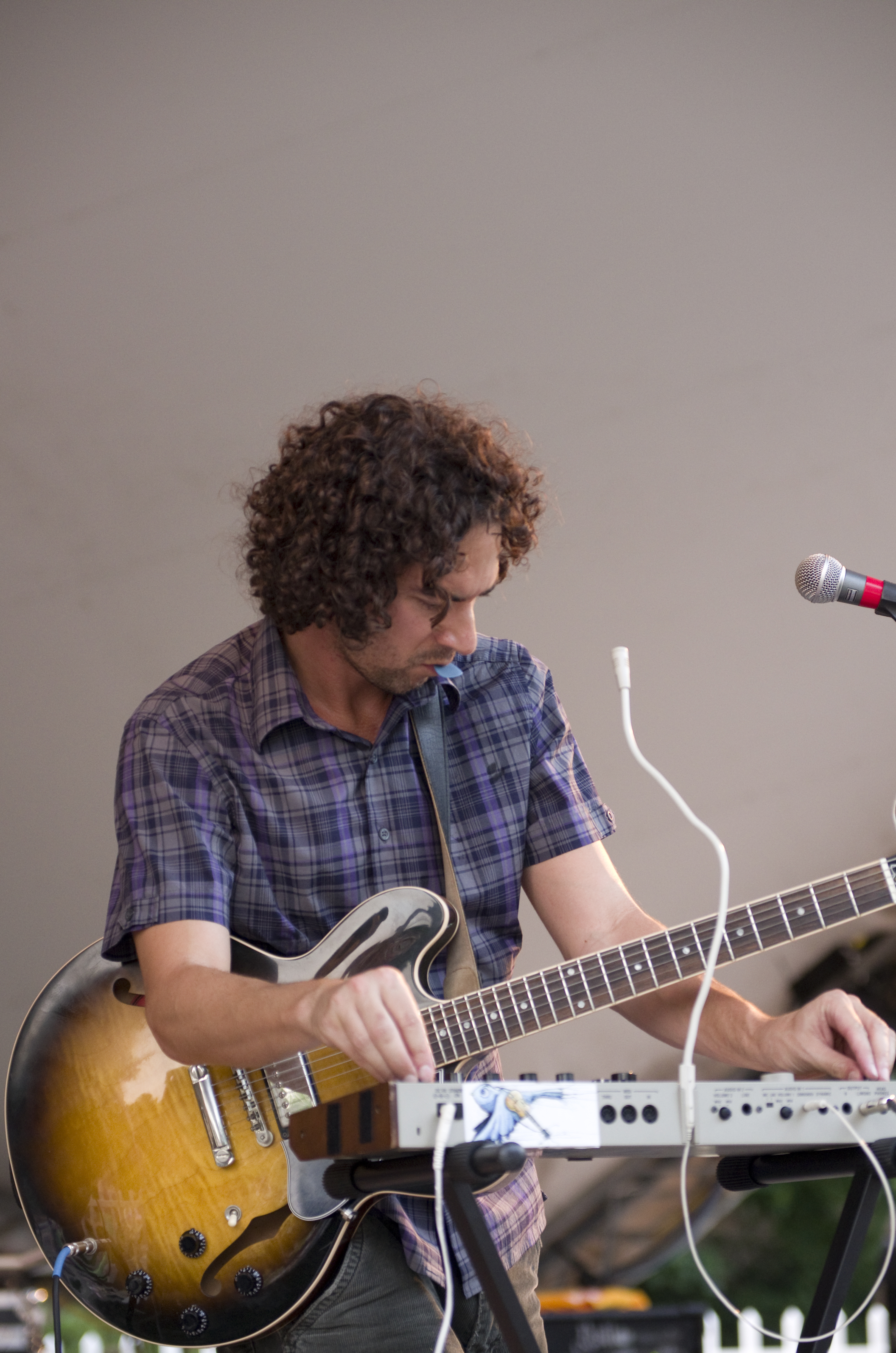 Teddy Presberg Live